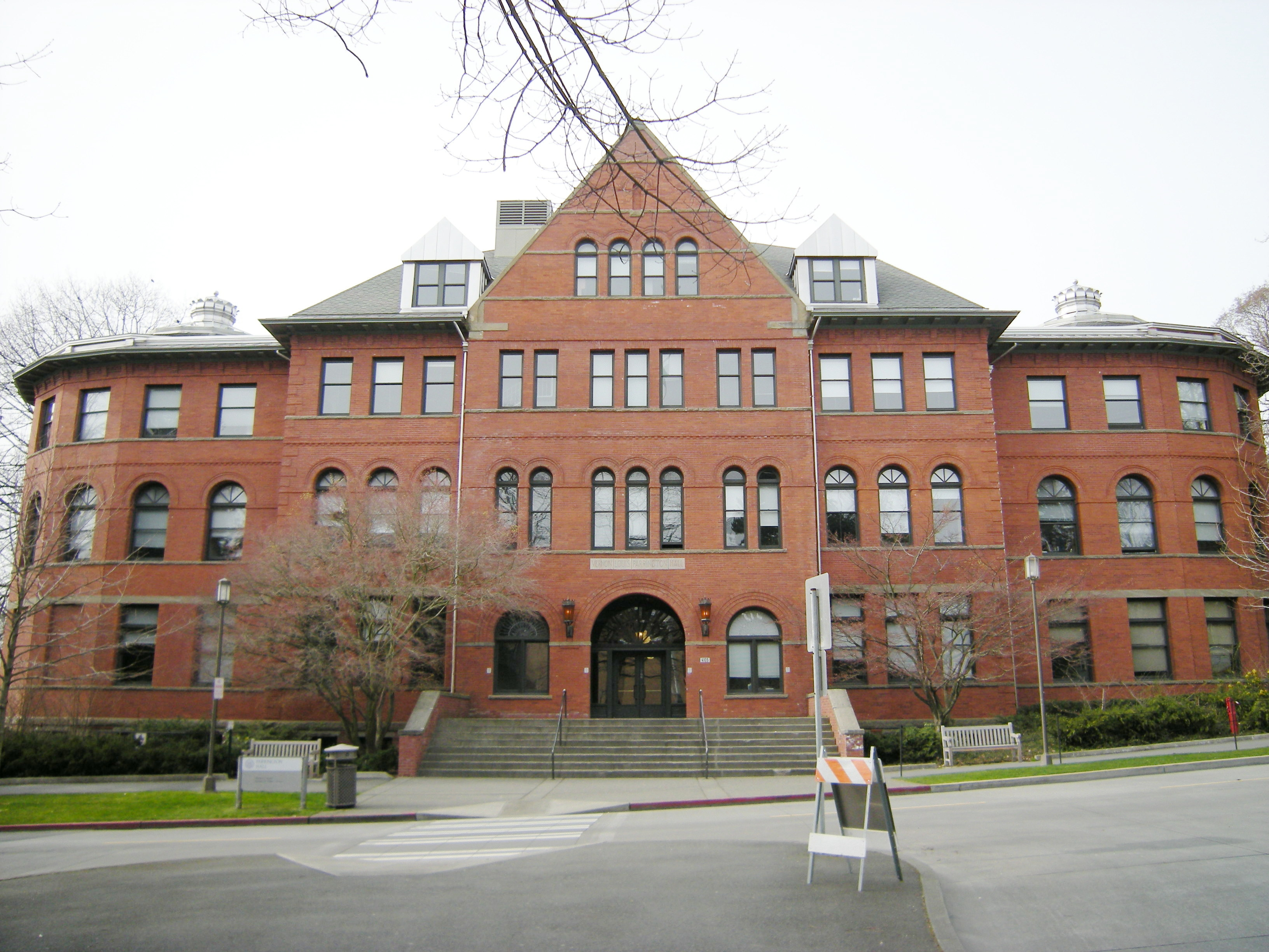 [Vernon Louis] Parrington Hall, University of Washington, Seattle, Washington.